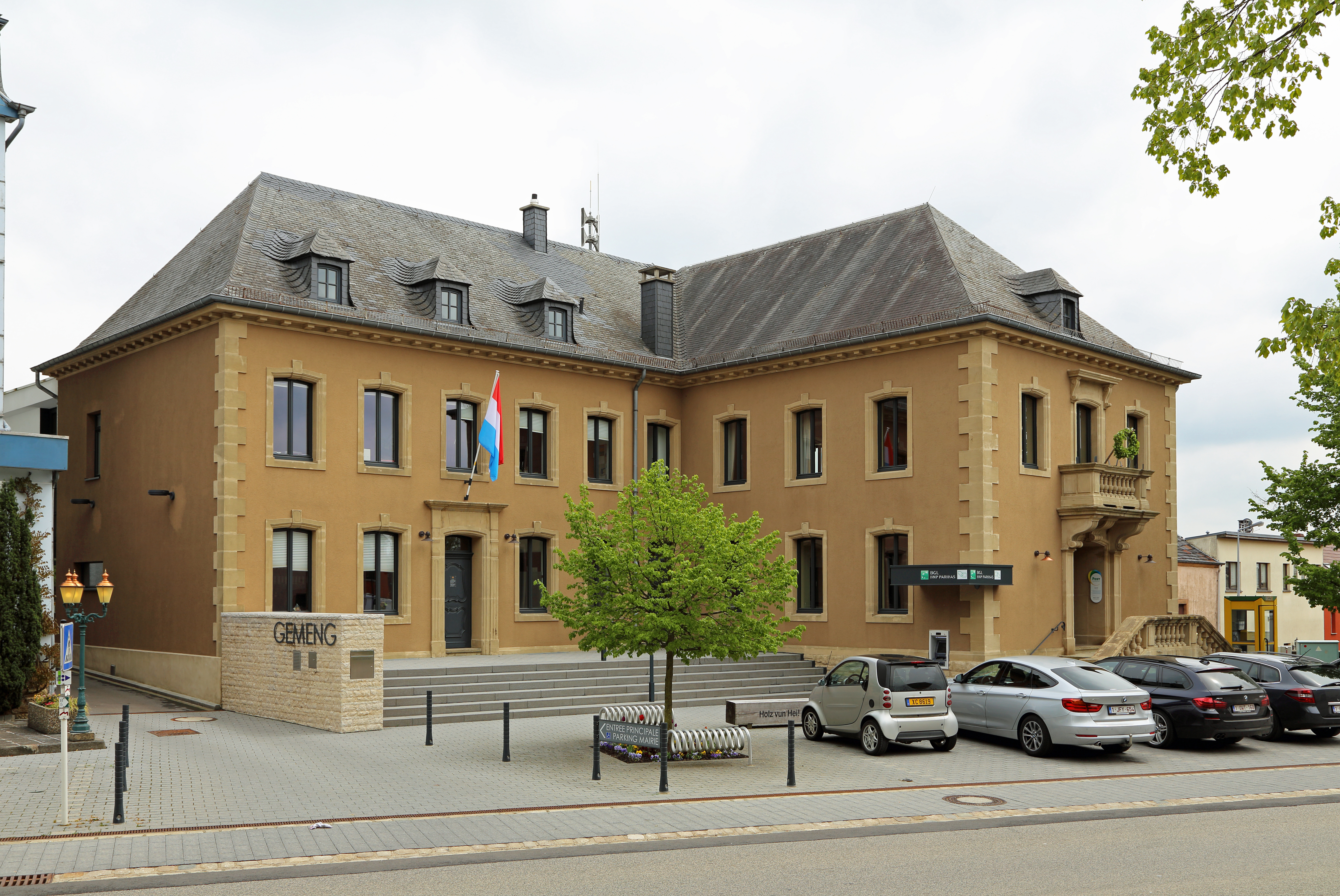 Berdorf (Grand Duchy of Luxemburg): town hall